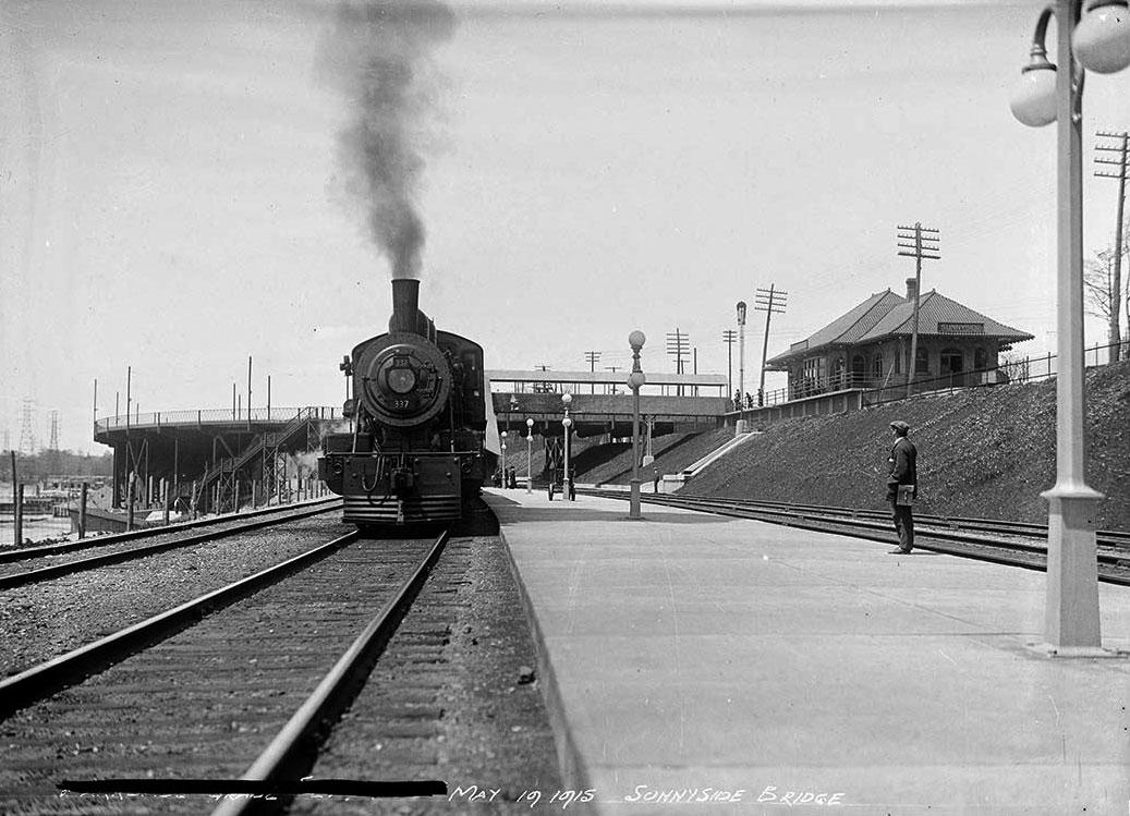 Photograph of Sunnyside Station in Toronto, showing GTR Locomotive 337.